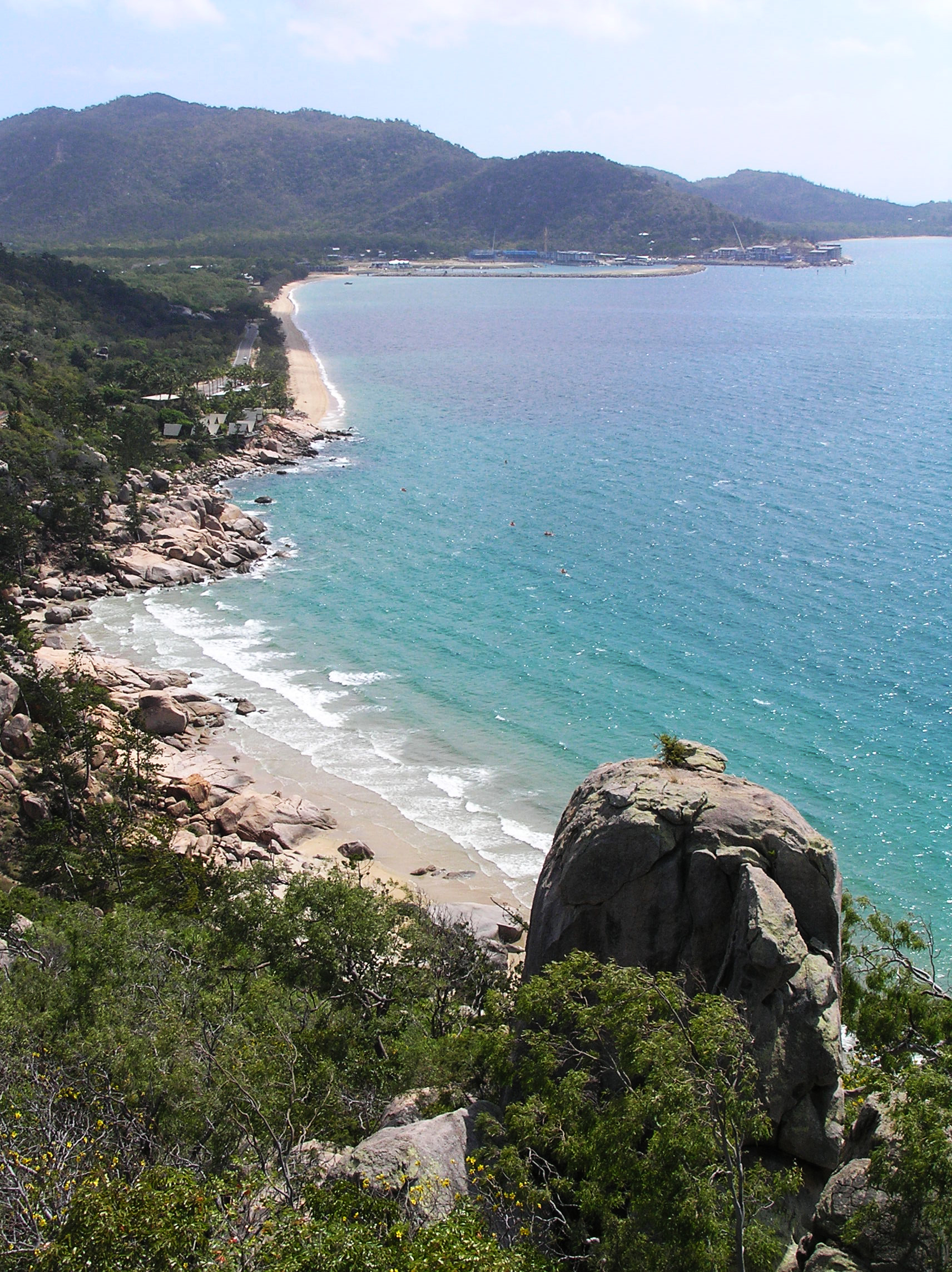 A view of Rocky Bay (foreground) and Nelly Bay, Magnetic Island from Hawkings Point, the headland which separates Picnic Bay and Nelly Bay